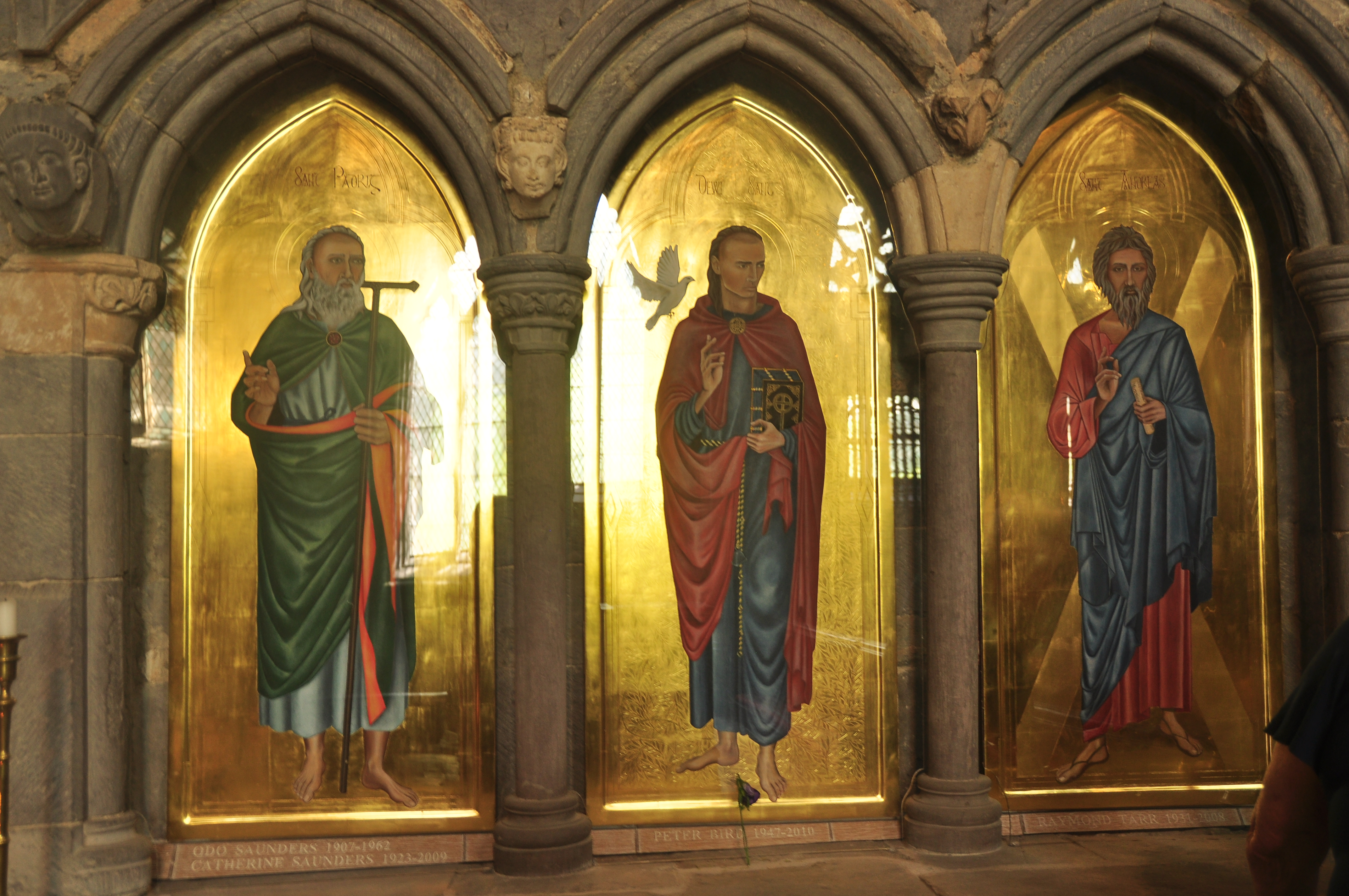 St David's Cathedral